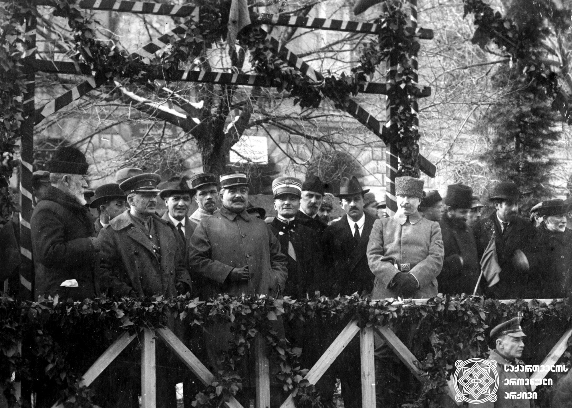 Georgia celebrates the first anniversary of its independence. N. Zhordania, S. Mdivani, N. Tsereteli, P. Kakhiani, G. Lordkipanidze, E. Takaishvili, and foreign guests are seen on the tribune.